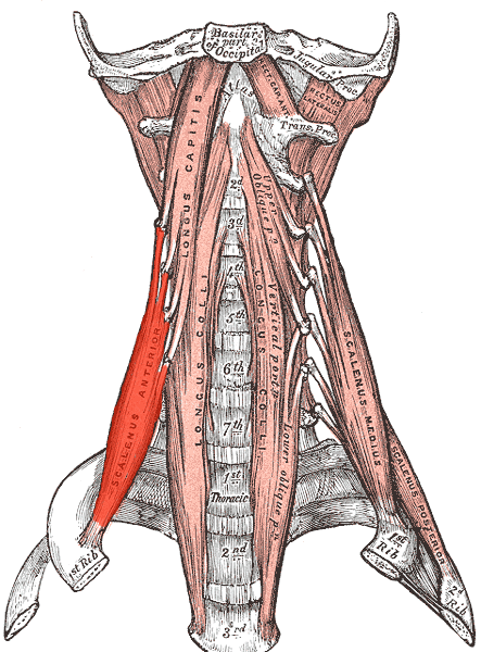 Scalenus anterior muscle